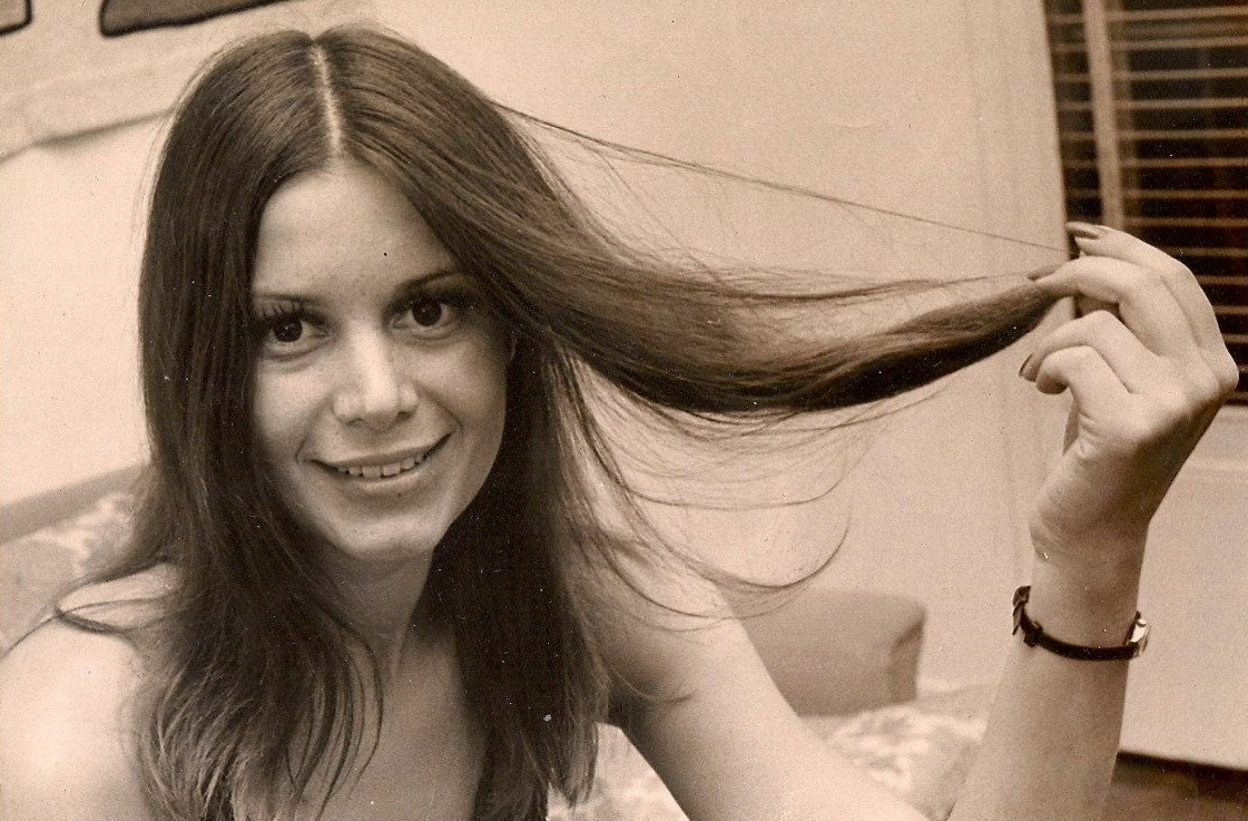 Luisina Brando- Actriz argentina